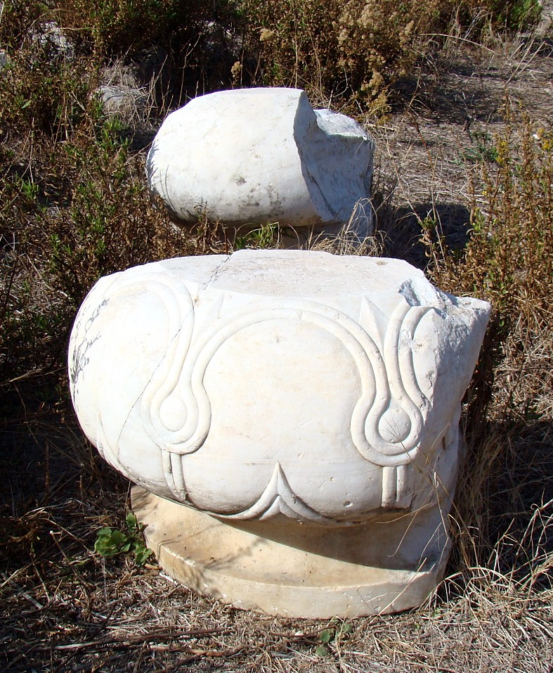 Base of a column from a temple dedicated to Hadad at the Eshmun temple in Bustan esh Sheikh, near Sidon, Lebanon